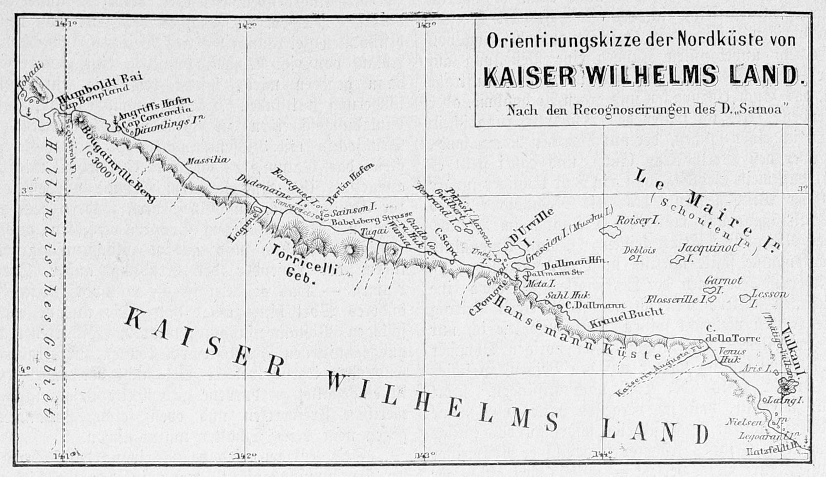 no caption